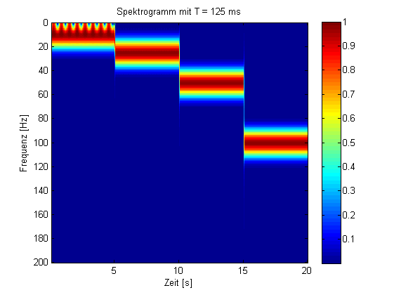 For the english version see STFT colored spectrogram 125ms.png